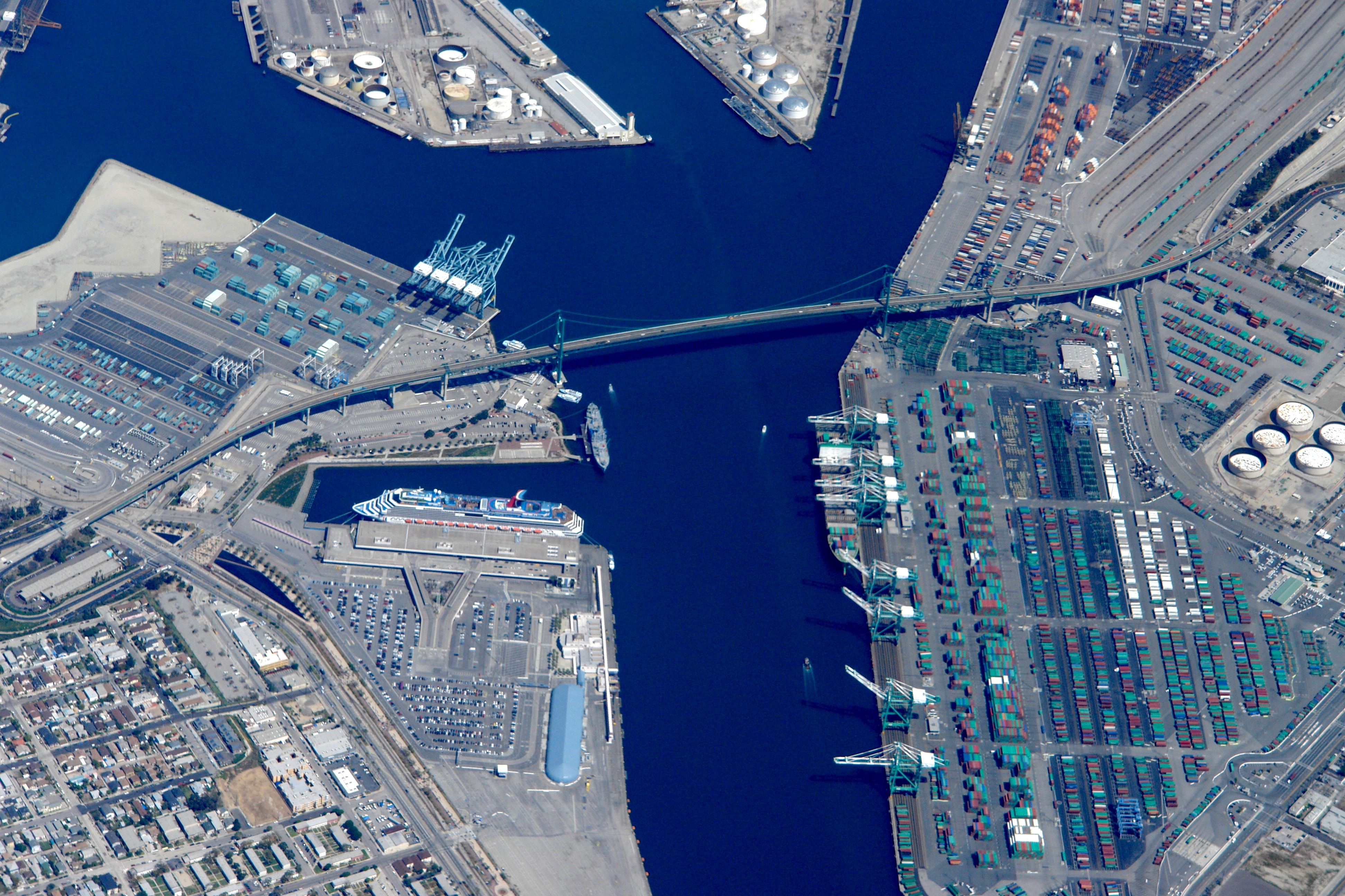 The Vincent Thomas Bridge between San Pedro (left) and Terminal Island (right) in Los Angeles, California (Los Angeles Basin) viewed from 11,500 feet. A Carnival Lines cruise ship is seen in dock. The Liberty Ship SS Lane Victory is also visible, moored between the cruise ship and the bridge.